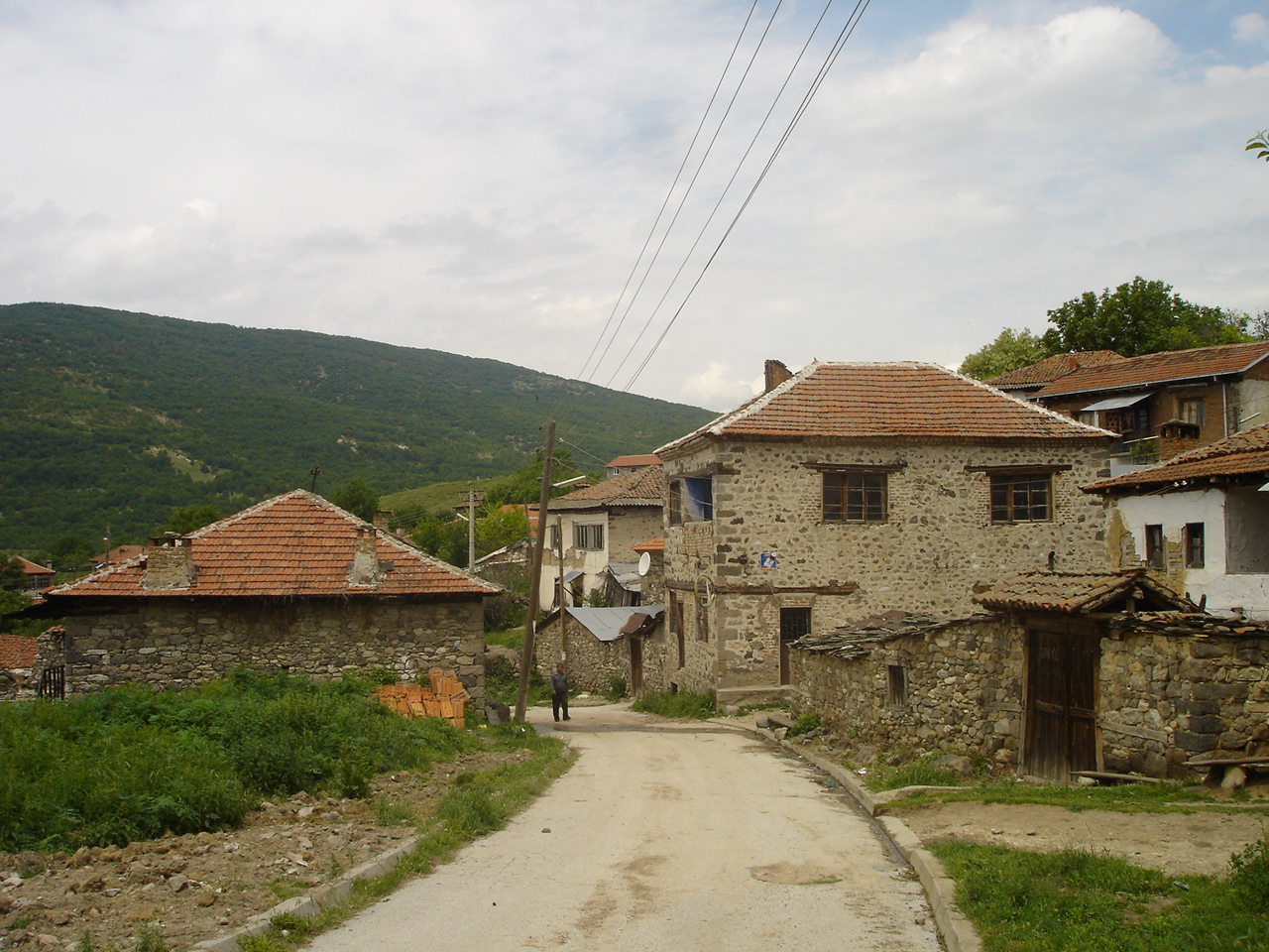 village of Vitolishte in Mariovo region, Macedonia